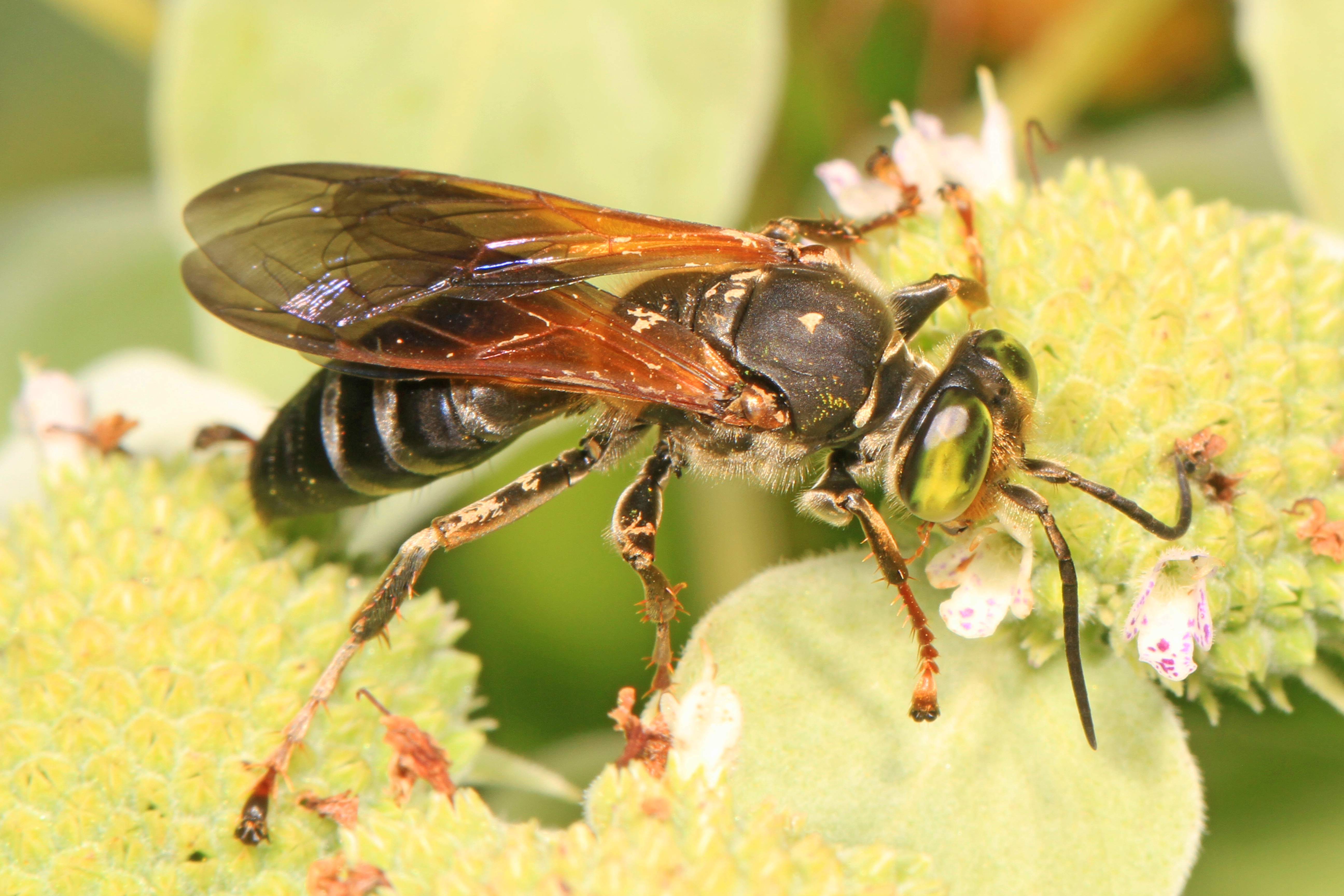 Square-headed Wasp - Tachytes guatemalensis, Meadowood Farm SRMA, Mason Neck, Virginia